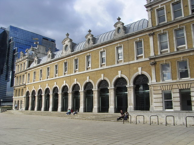 The Old Billingsgate Market